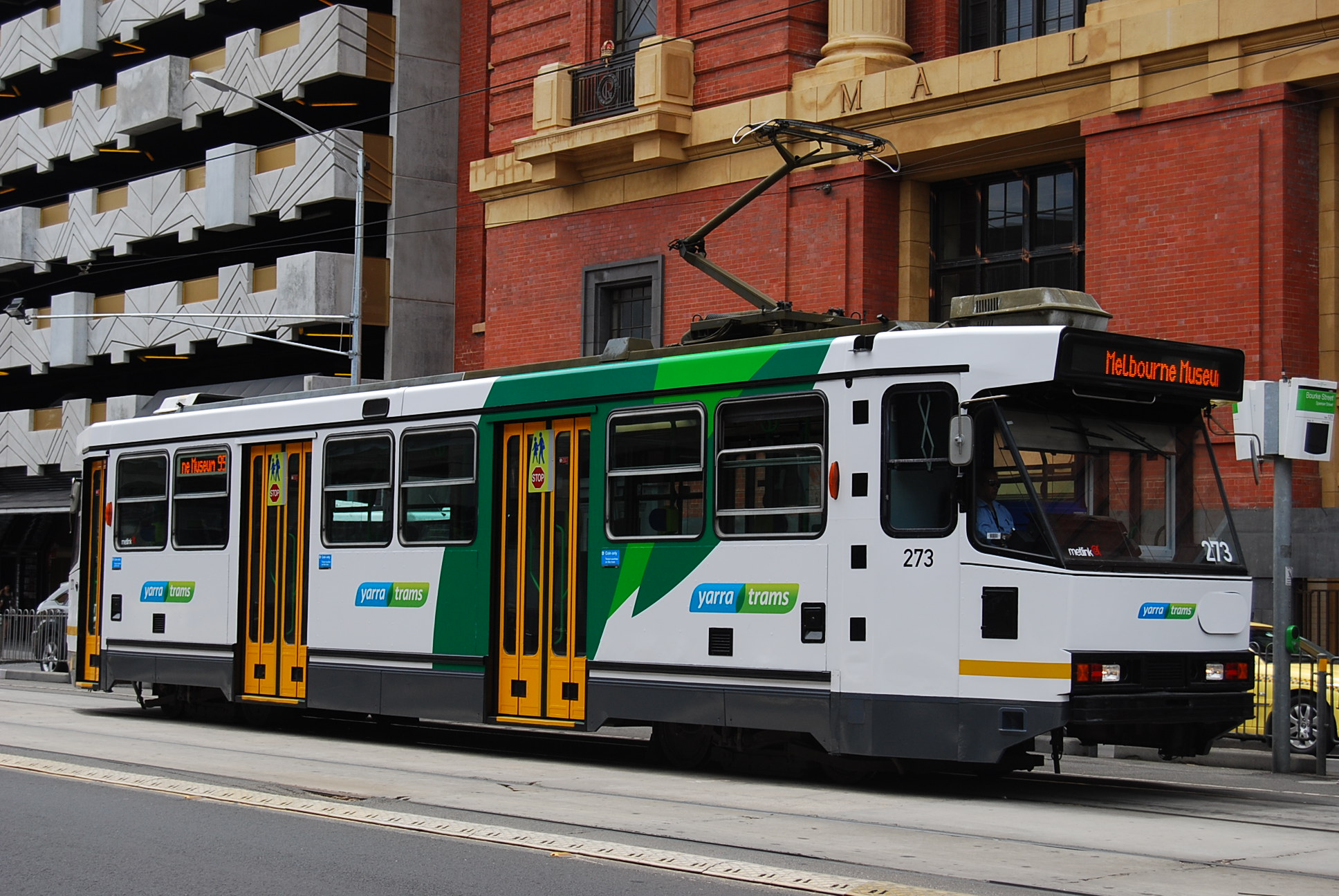 A2.273 in new Yarra Trams livery.